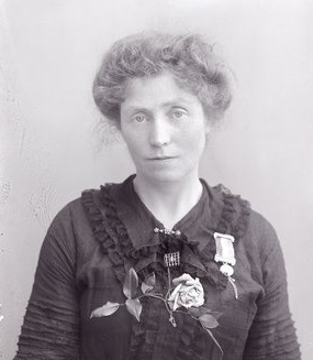 Winifred Jones. This picture was taken by Colonel Linley Blathwayt and was stored on glass negatives. The Blathwayt's home of Eagle House way the home of Linley, Emily and Mary Blathwayt who all actively supported the suffragette cause. Nearly all the prominient UK suffragettes stayed with them and these photos and dozens of trees were planted to commemorate their visits. Col. Linley Blathwayt took these pictures between 1908 and 1912. He died in 1919. The pictures are made available in larger formats by .